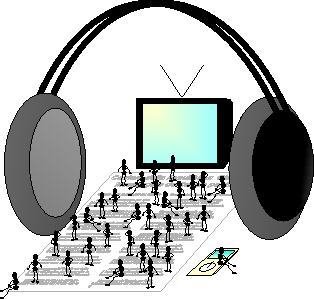 mass-media, information, disinformation, manipulation, people, persuasion, arm-twisting, communication, fraud, critical thinking, subdue, controll, press freedom, information awareness, strategy of tension, broadcasting, television, propaganda, public, pluralism, alienation, estrangement, cinema, parody, opinion maker, spindoctors, politics, political theatre, political theater, agitprop, consumerism, journalist, public opinion